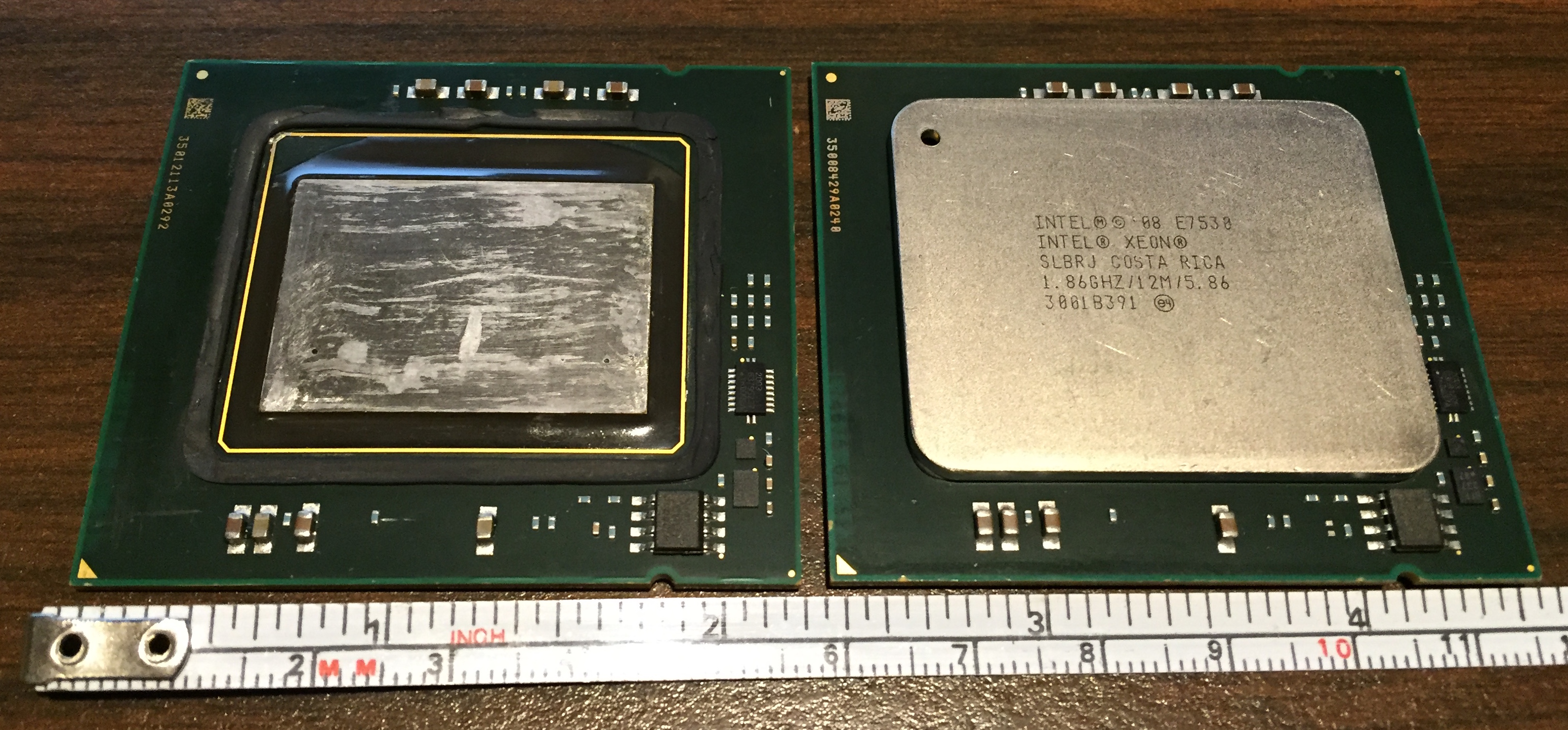 Xeon Beckton with and without heat spreader